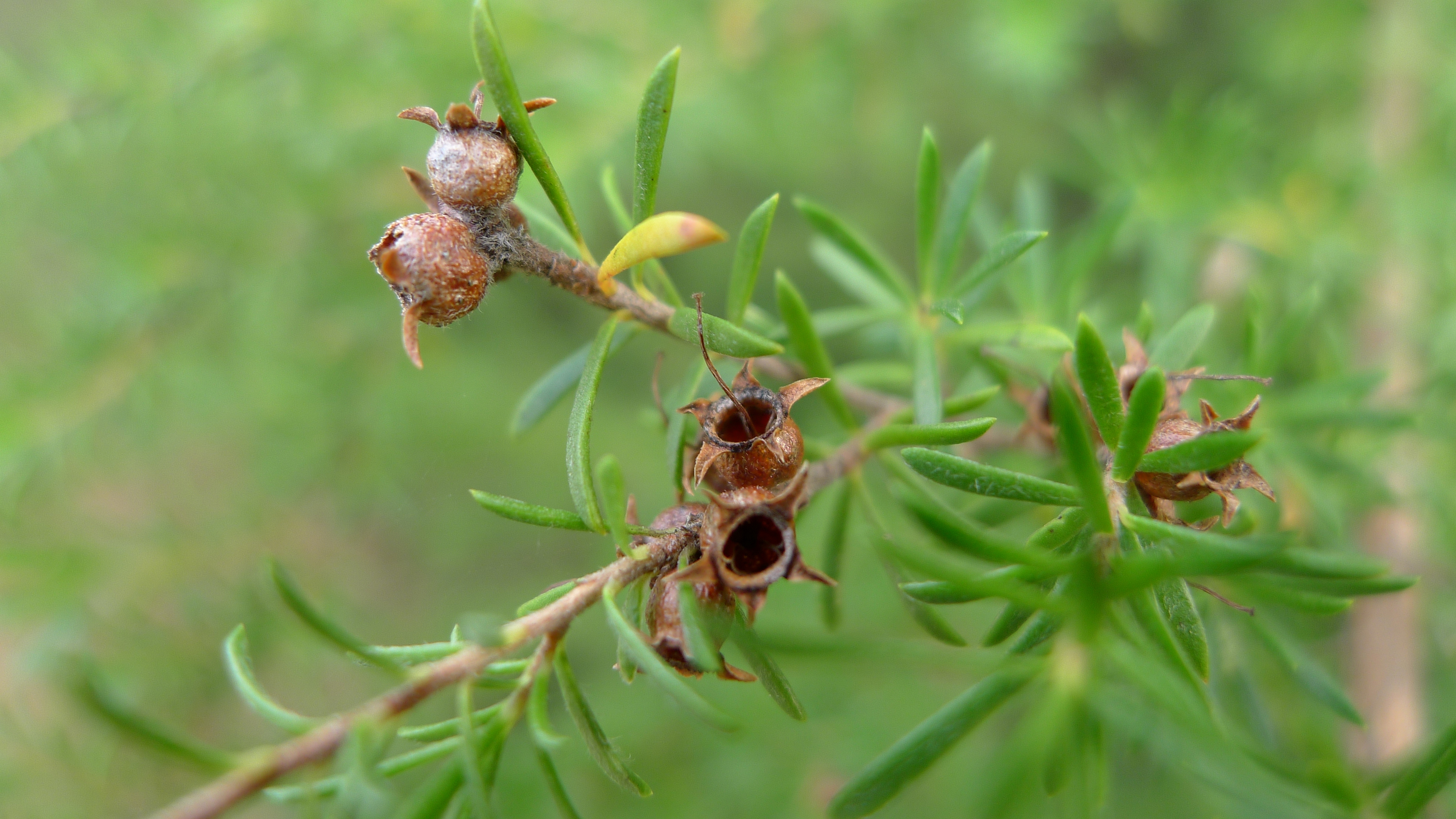 Tick Bush, Kunzea ambigua, capsules. Garawarra State Recreation Area, NSW Australia, May 2013.